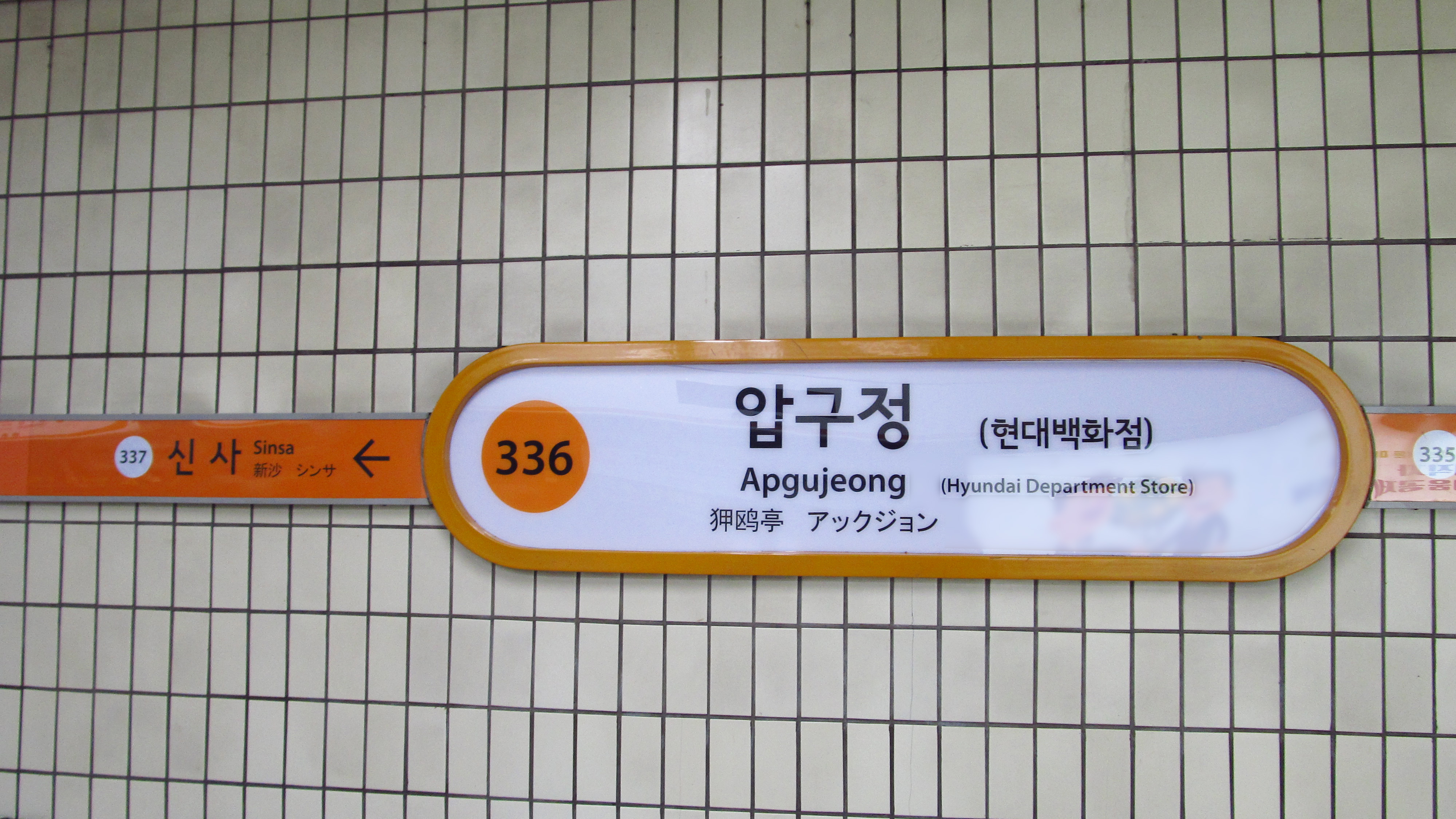 A sign of Apgujeong Station on Seoul Subway Line 3